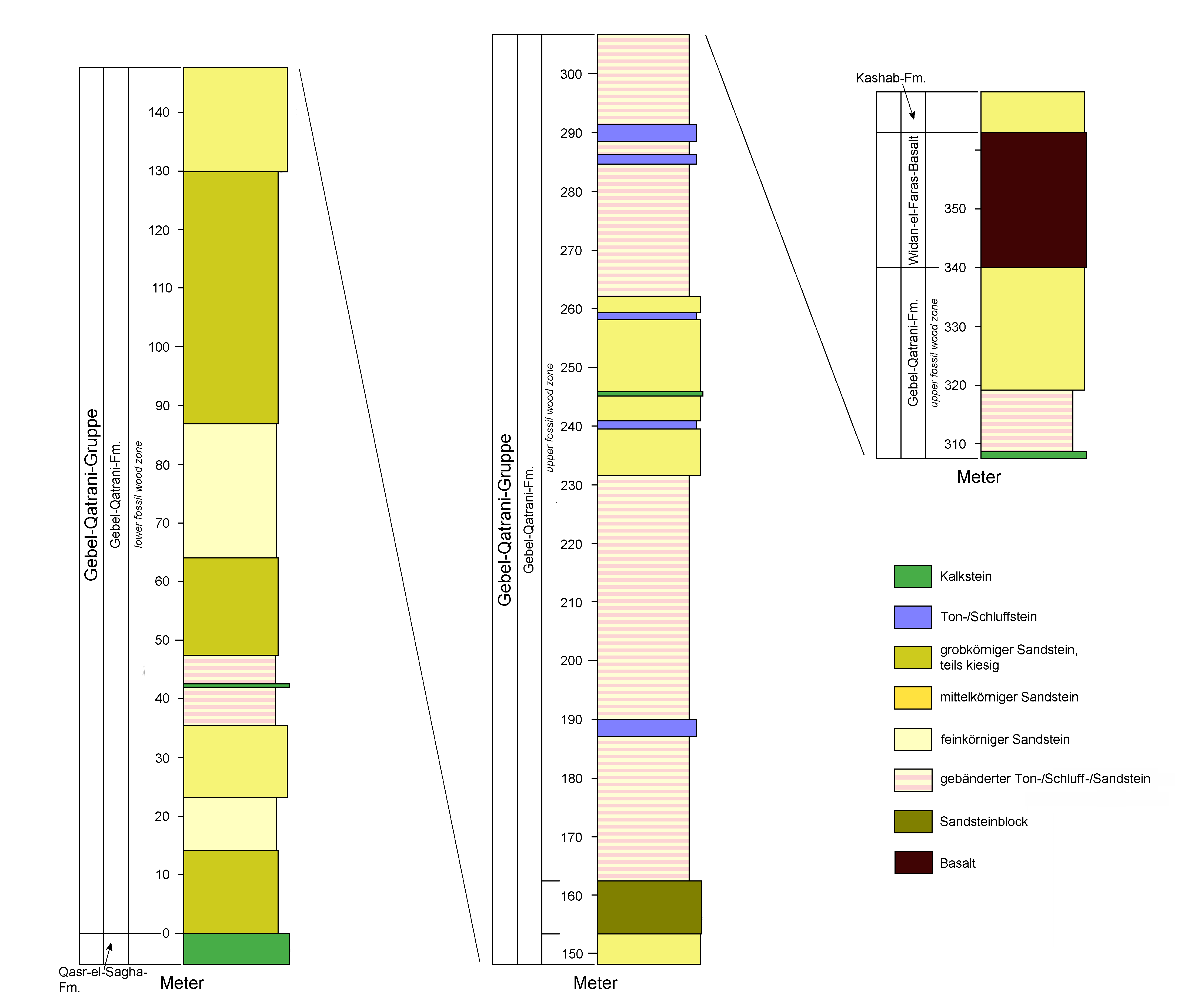 Geological section of the Gebel Qatrani formation, Fayum area, redrawn after Thomas M. Bown and Mary J. Kraus: Geology and Paleoenvironment of the Oligocene Jebel Qatrani Formation and Adjacent Rocks, Fayum Depression, Egypt. U. S. Geological Survey Professional Paper 1452, 1988, pp. 1–60 (fig. 19)